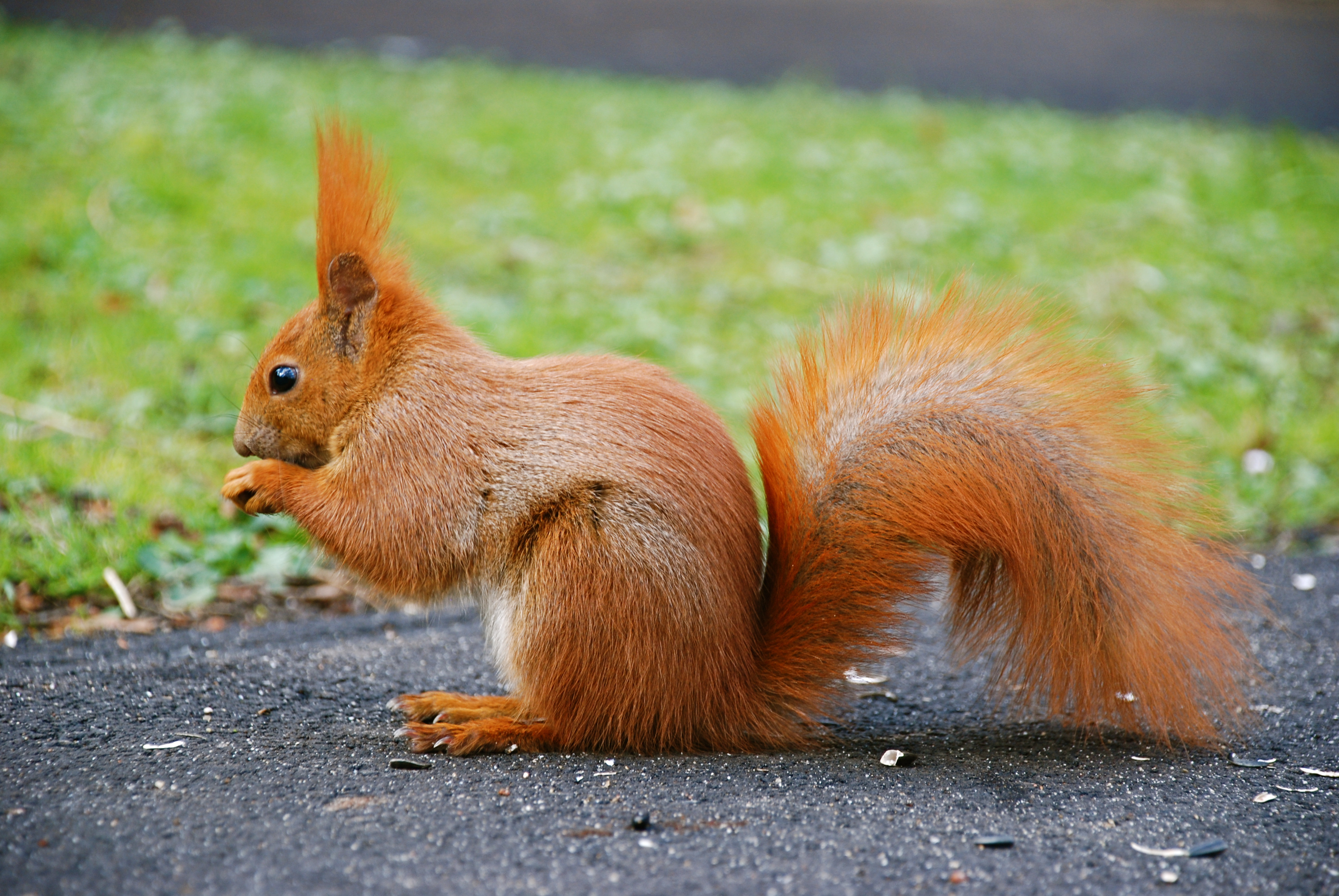 This is a photo of Squirrel (Sciurus vulgaris) taken in Warsaw park "Łazienki".